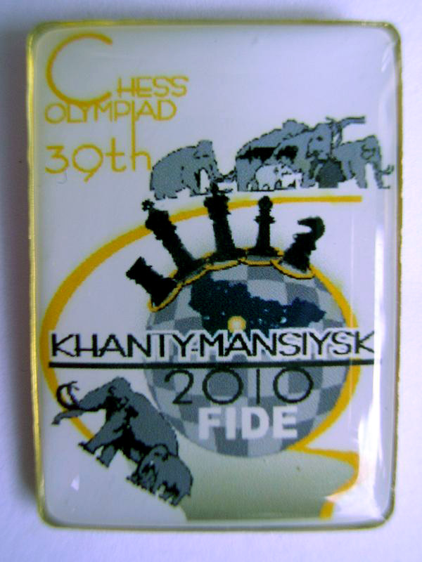 Pin 'Chess Olympiad 39th Khanty-Masiysk 2010 FIDE', Photographer Gerhard Hund.